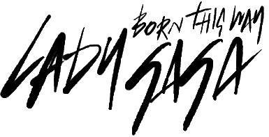 Logo taken from the cover art from Lady Gaga's album "Born This Way".